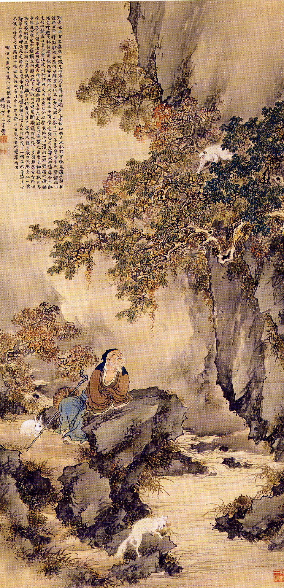 Kono Bairei: Taishakuken looking three animals, 1885. Ink and color on silk, 146x71 cm. Kyoto Municipal Museum of Art.